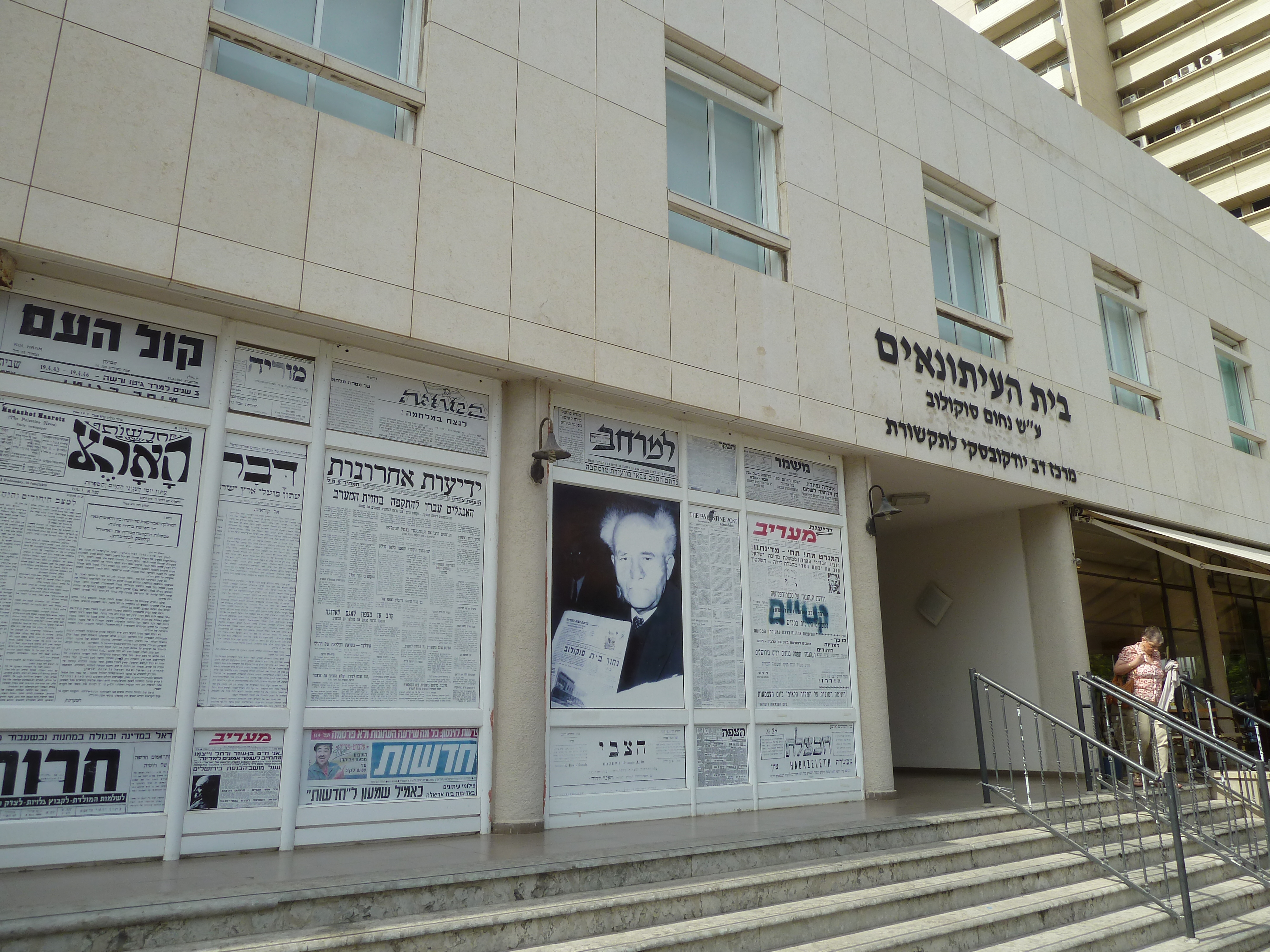 Beit HaItonaim (Press house), Tel Aviv, Israel